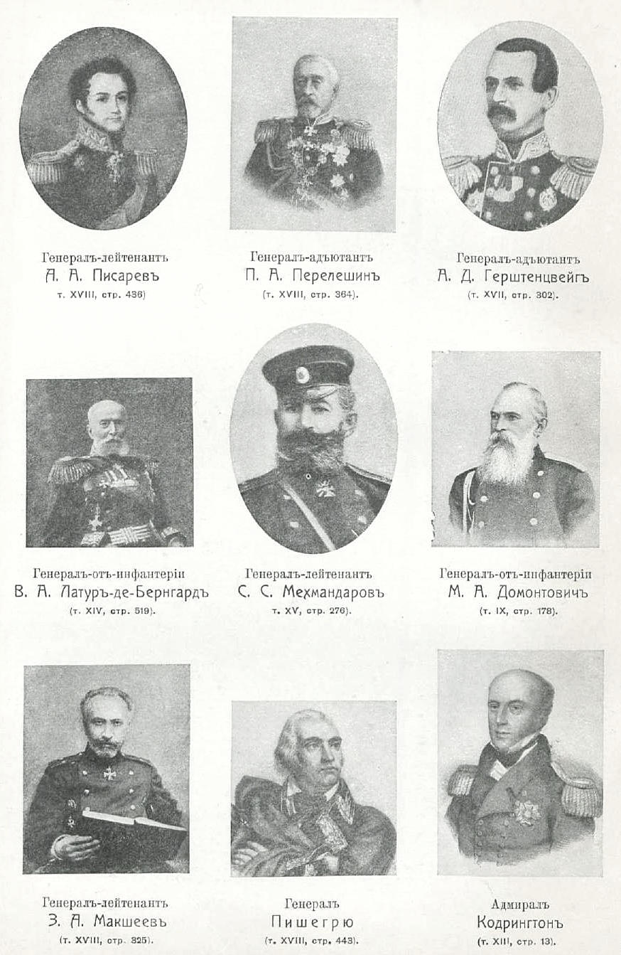 Generals of the Russian Empire